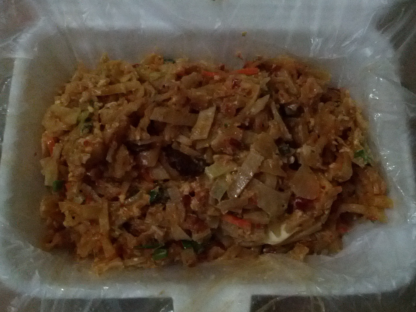 Kottu, a popular dish in Sri Lanka, packed in a typical take-out box